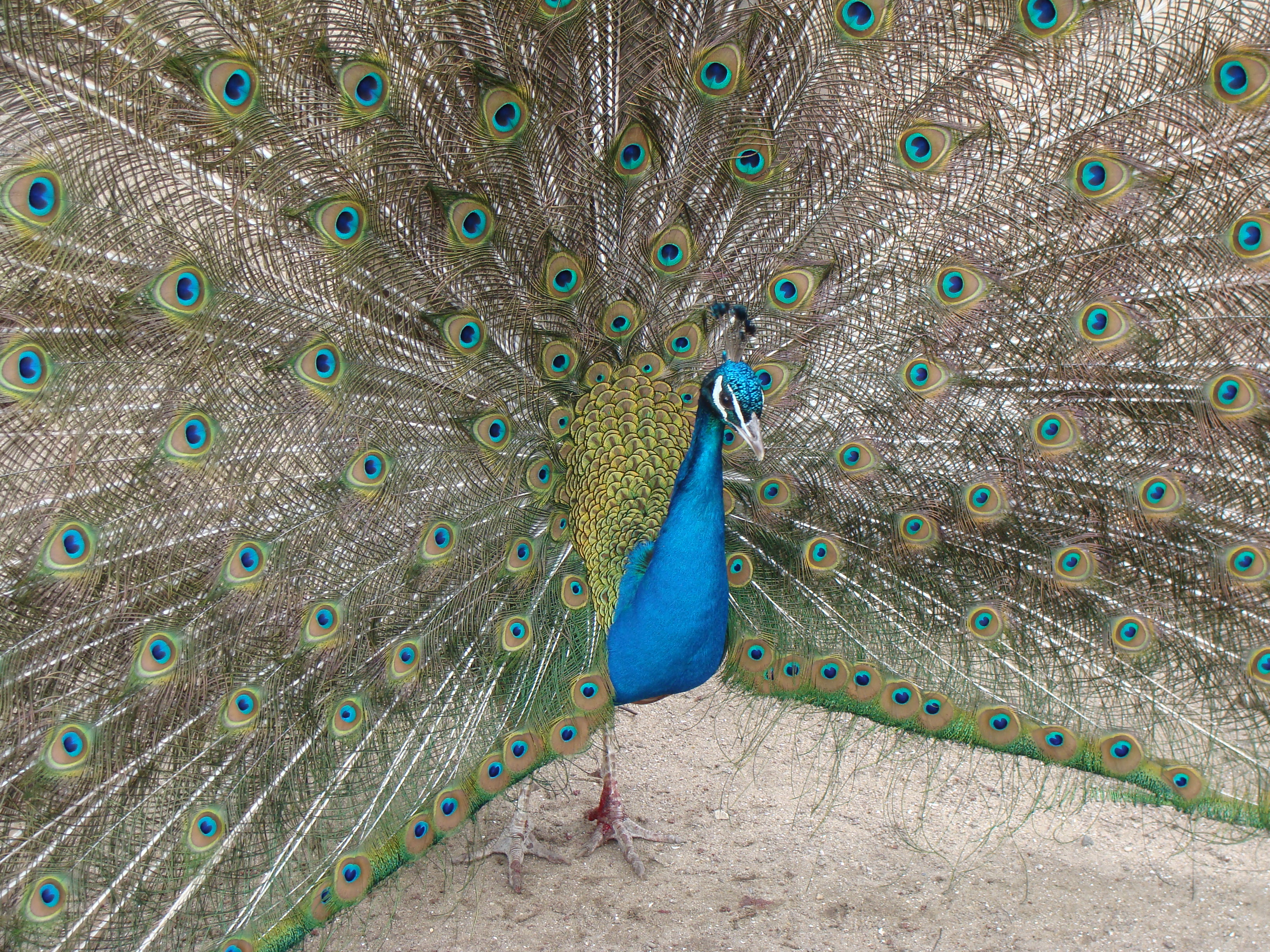 a Pavo cristatus male displaying in Parc Charruyer, La Rochelle, France